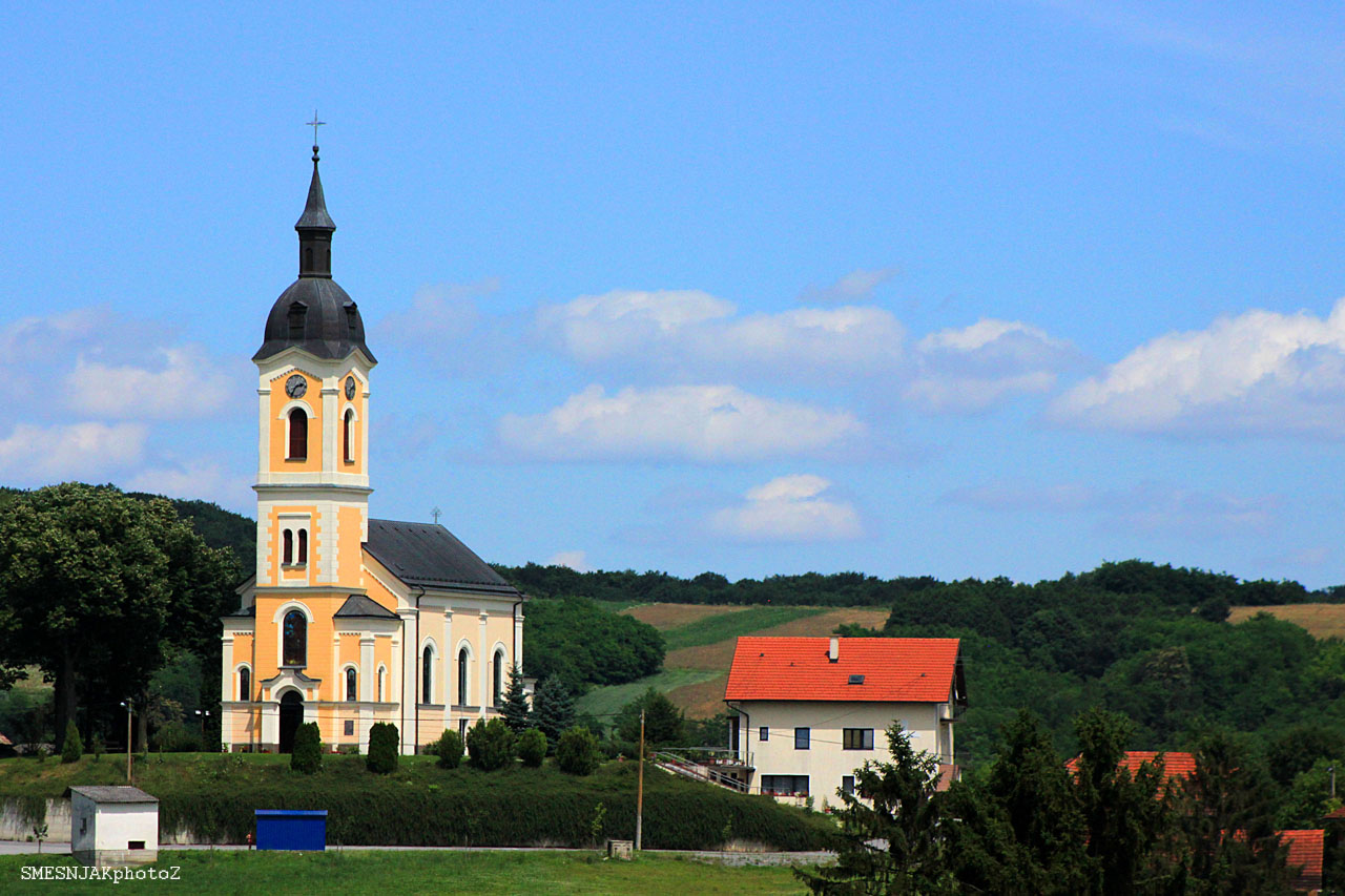 Church of the Visitation of the Blessed Virgin Mary and rectory